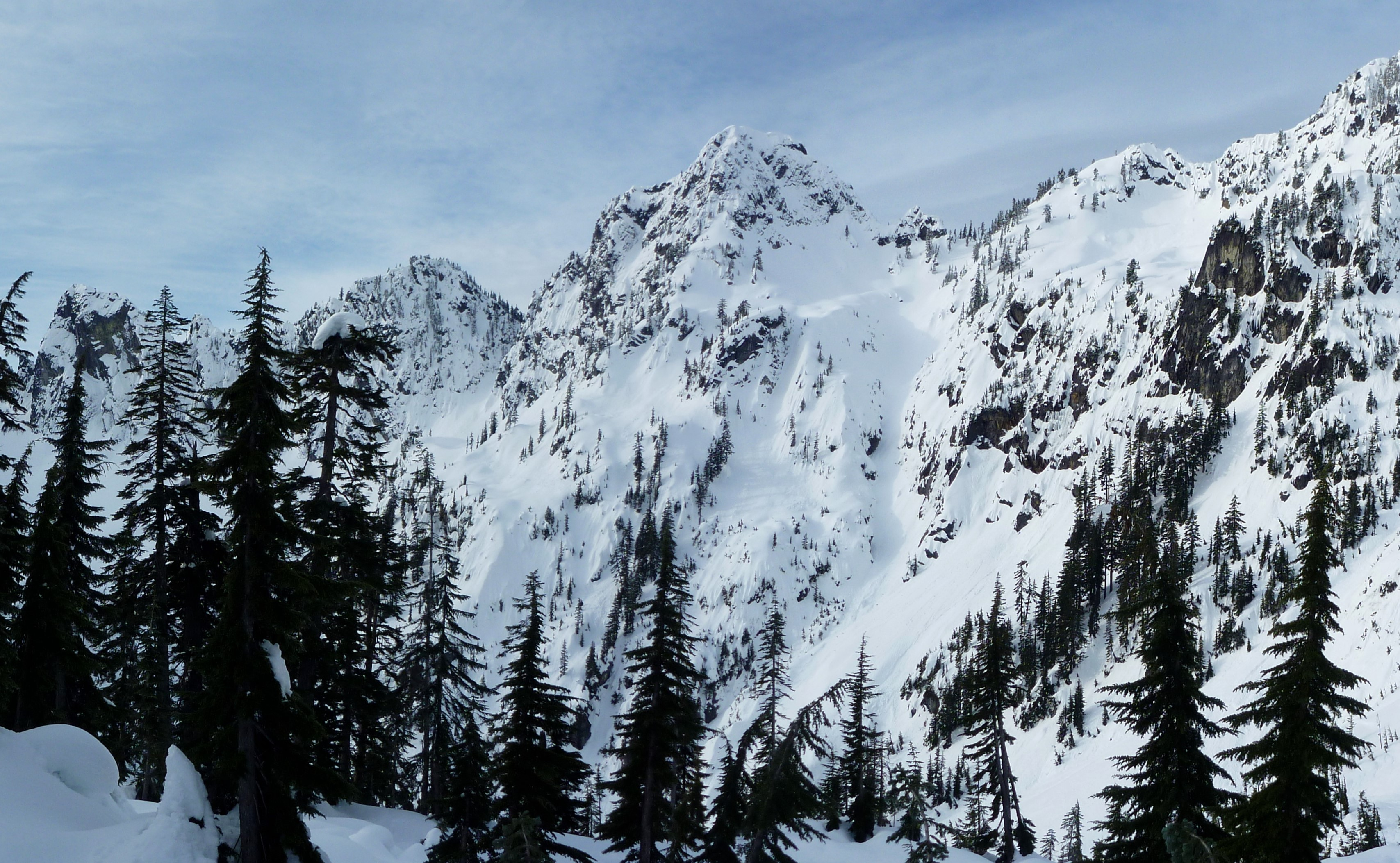 Bryant Peak centered